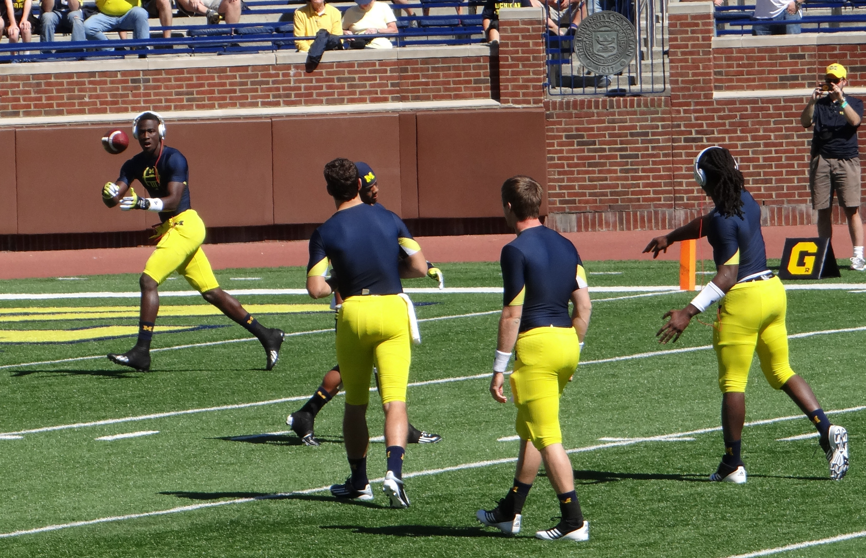 Michigan quarterback Denard Robinson throwing to Devin Gardner during warmup before the UMass game